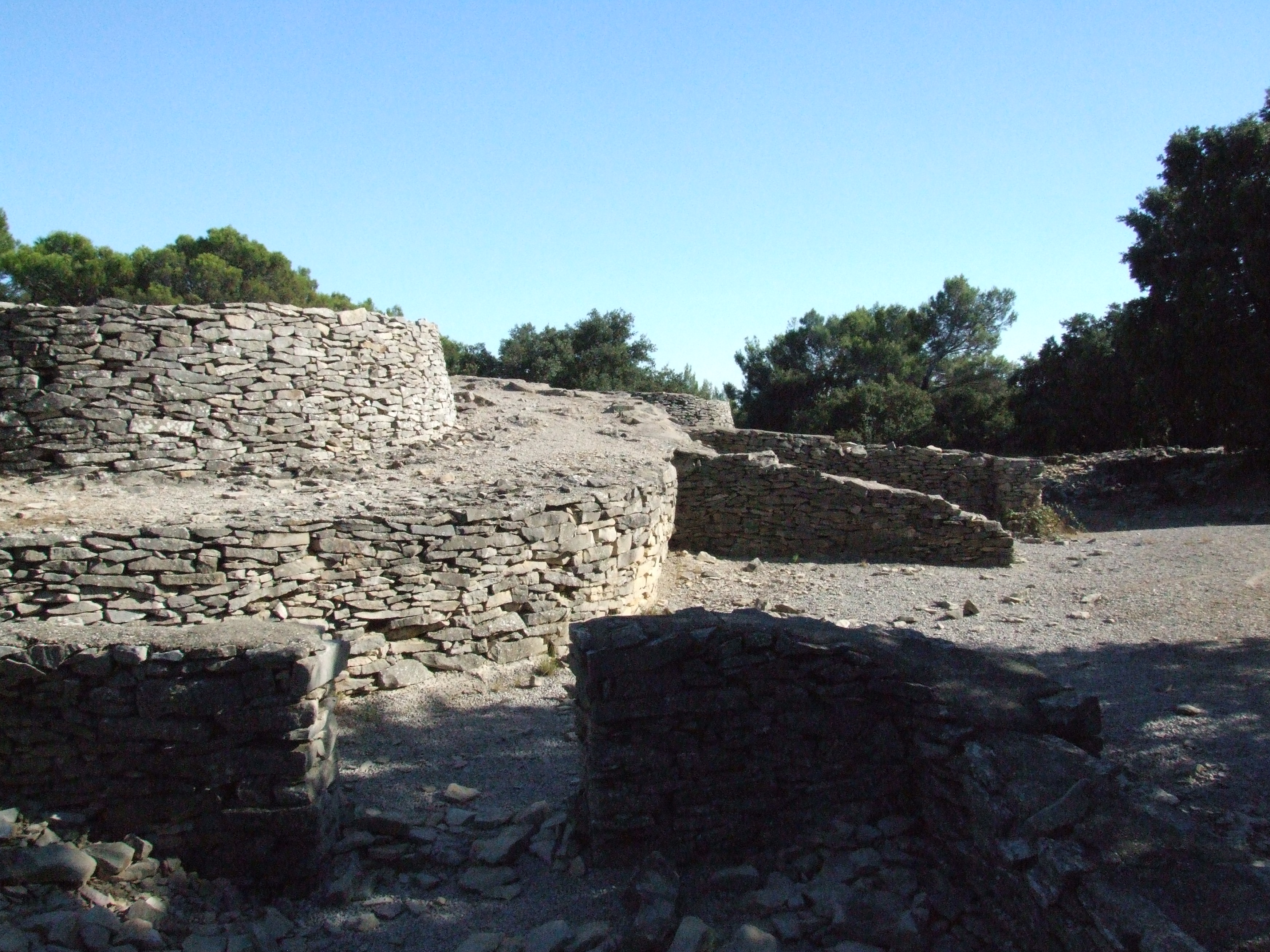 The village ofNages is dominated by the two Gaulish oppidums of Roque de Vif, and of Les Castels (Nages) on the Roque de Vif hill to the north. Here we are in the Oppidum des Castels.